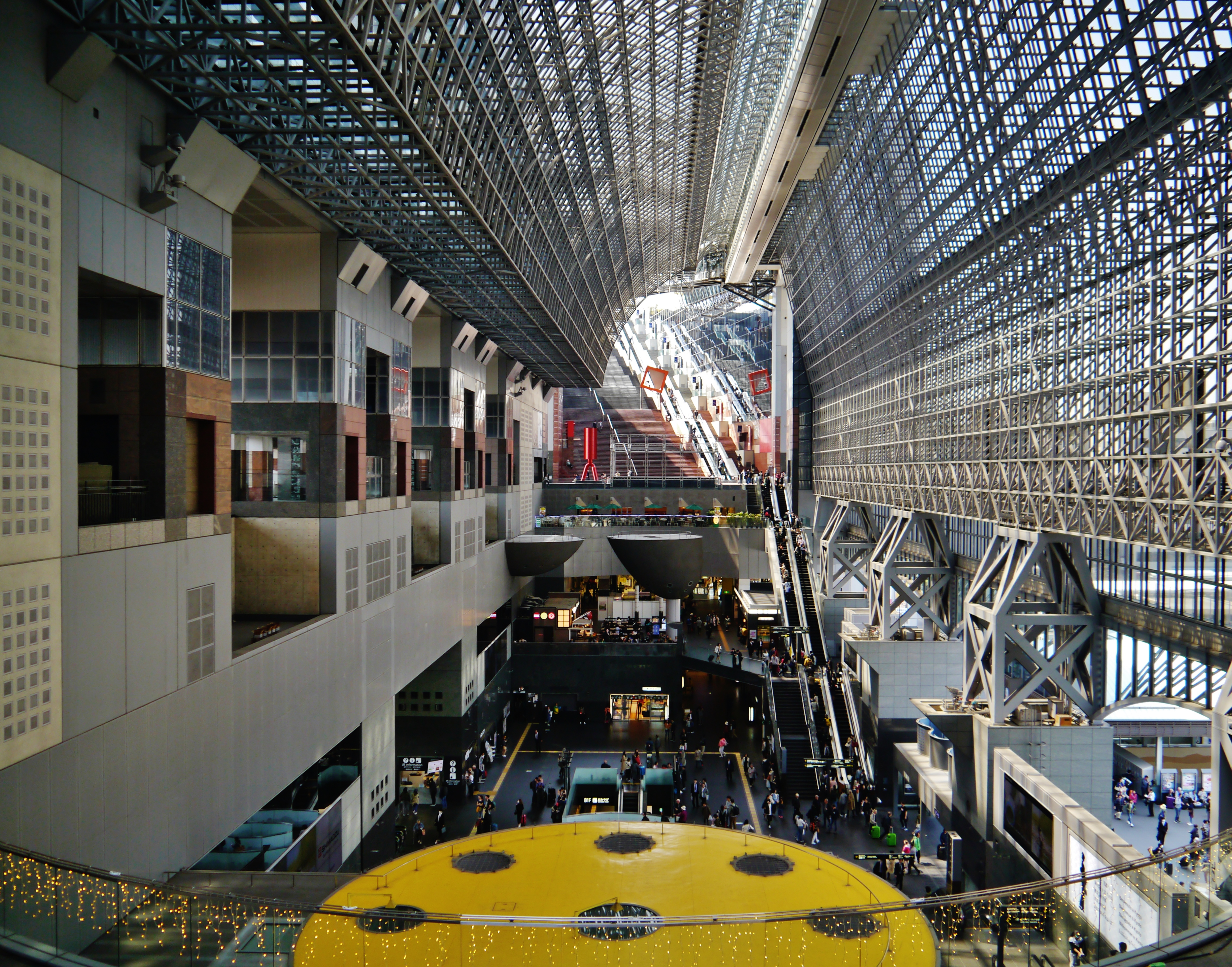 Interior of Kyoto Station, Kyoto, Kyoto Prefecture, Kinki Region, Japan